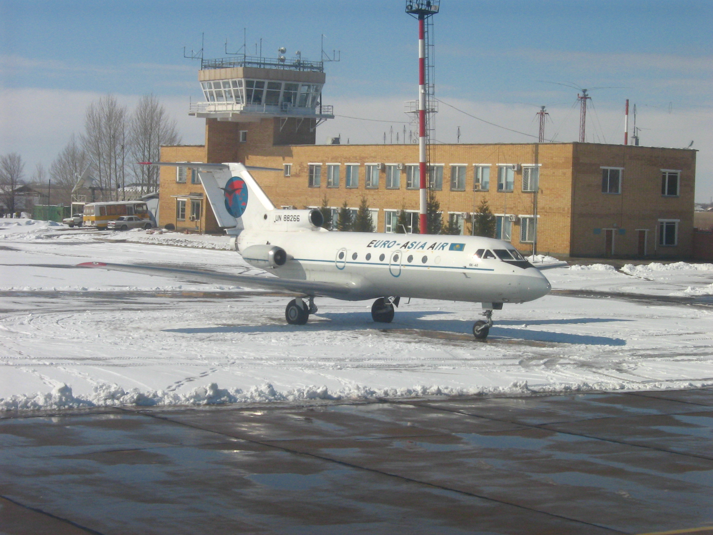 Euro-Asia Air's plane Yak-40 (UN 88266), Oral Akzhol Airport